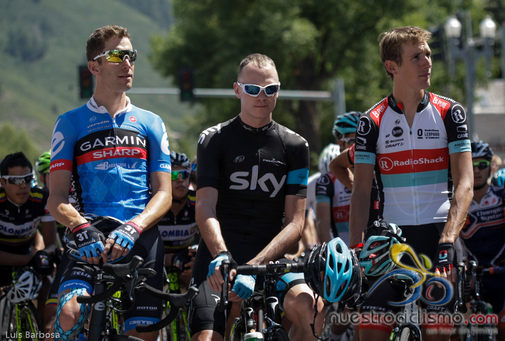 Christian Vande Velde, Chris Froome and Andy Schleck before starting the 1st stage of the USA Pro Cycling Challenge 2013